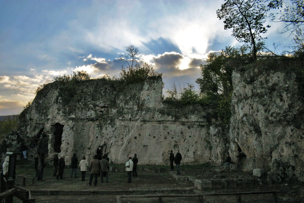 the place where aristoteles and Alexander the Great met, in Naousa